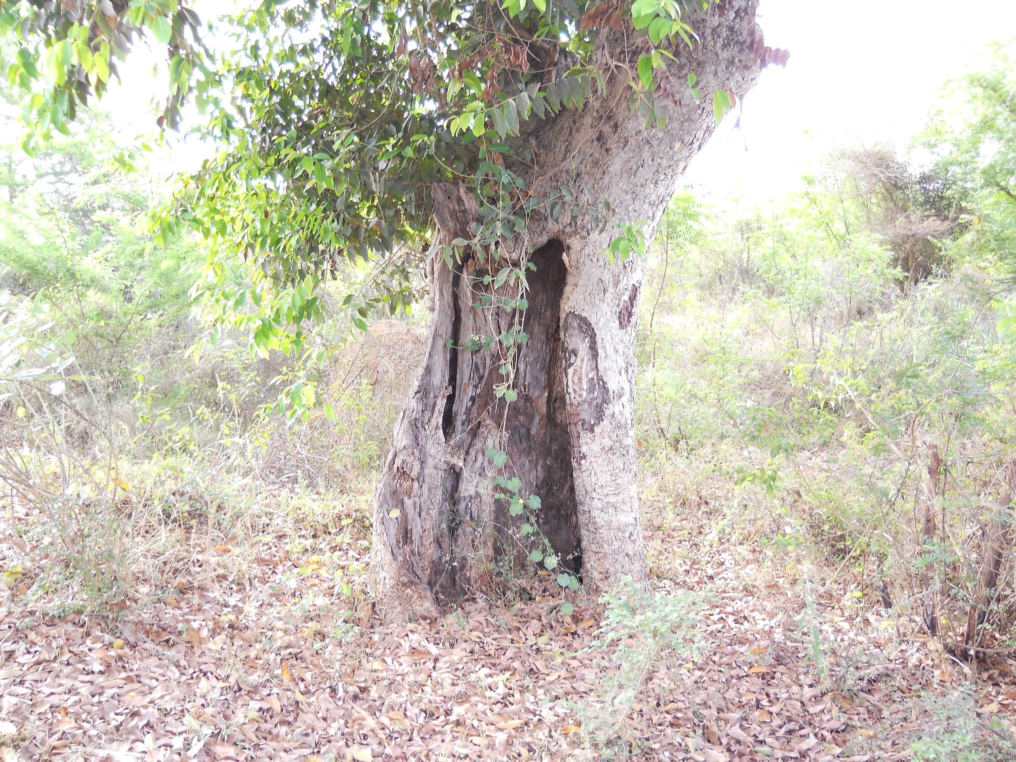 Tree hollow